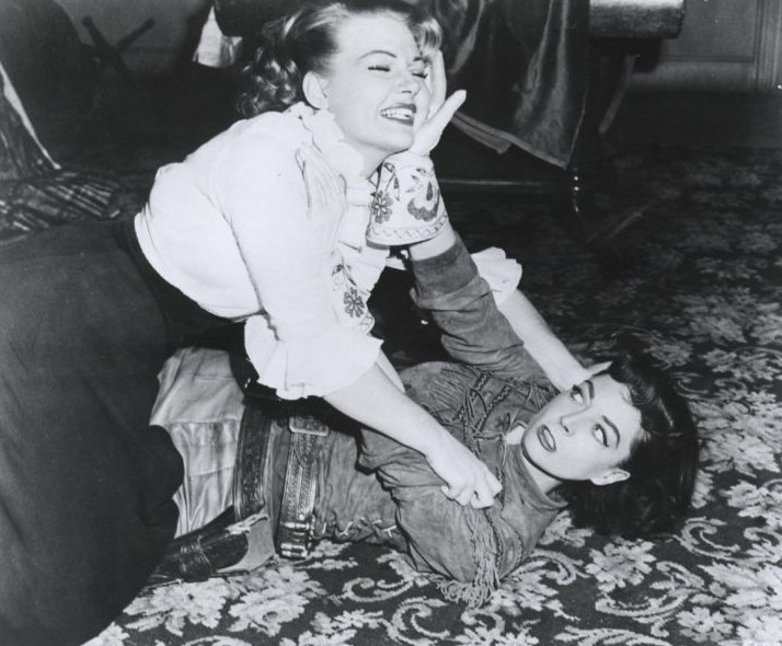 Movie still from the Republic Pictures 1954 television series "Stories of the Century" which is listed in multiple databases and web sites (to include Wikipedia) as being in the public domain.